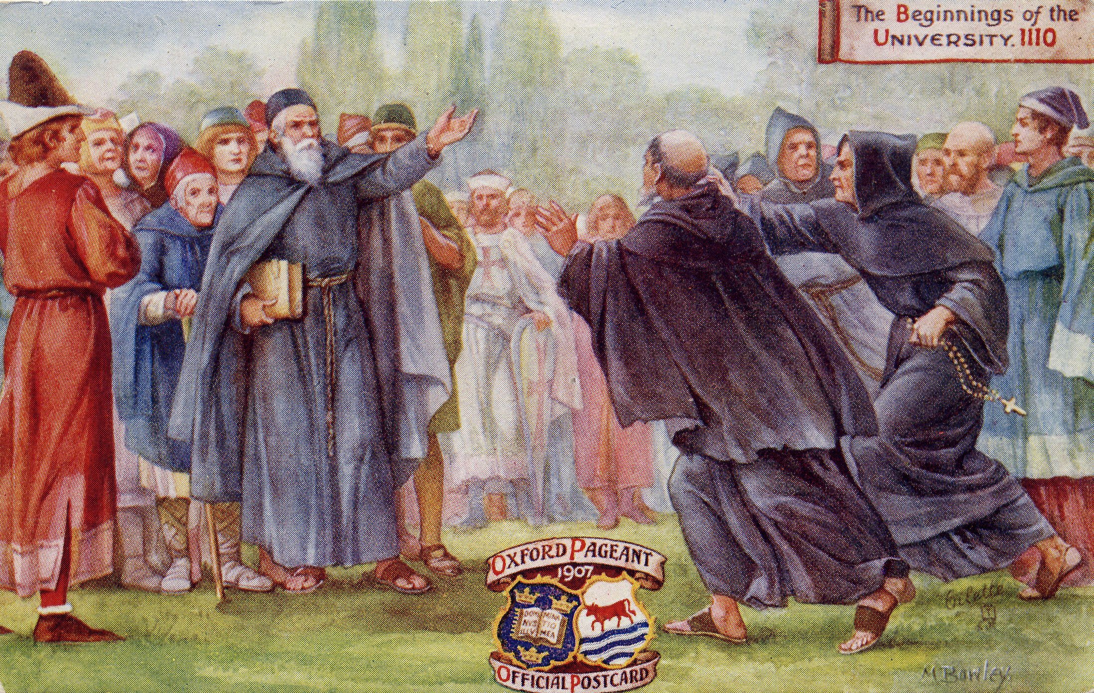 Old Postcard from Oxford (1907): Theobaldus Stampensis founds the University ca AD 1110 (actually later, for at this date Teobald was yet in Fance at Etampes; after a picture by C. Bowley)